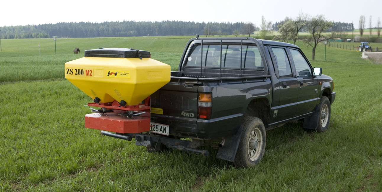 Electric twin broadcaster APV ZS 200 M2 on a 4wd off-road car